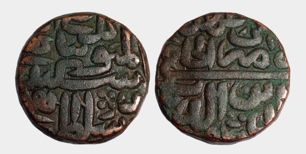 Sikander Suri Paisa